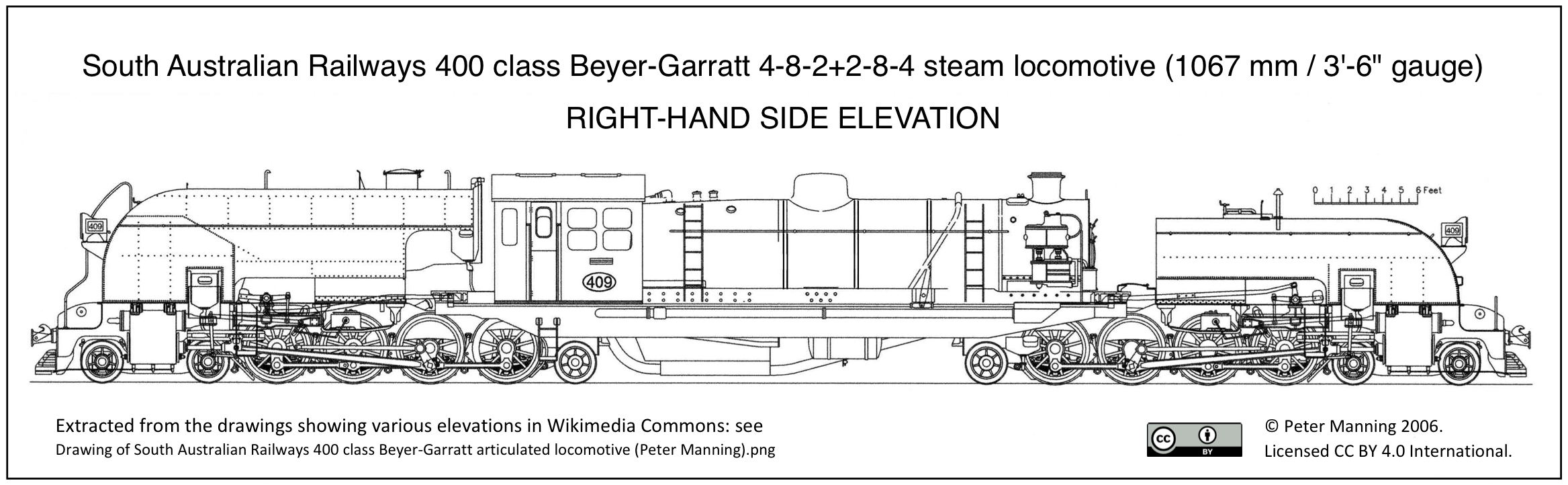 This drawing of the right-hand side elevation of South Australian Railways 400 class Beyer-Garratt steam locomotive is an extract from the drawing of several elevations at Drawing of South Australian Railways 400 class Beyer-Garratt articulated locomotive (Peter Manning).png (CC BY 4.0 International)